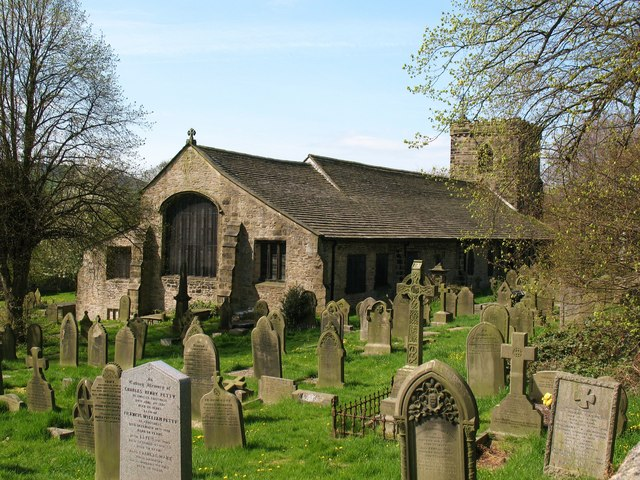 St Andrew's Church The parish church at Kildwick stands close to the south bank of the canal. It is a long, low building dating mostly from the 14th century.